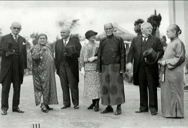 Sir Robert Ho Tung (third from right) receives US vice-president John Nance Garner (second from right) at Ho Tung Gardens in 1935; wives Clara (2nd left) and Margaret (1st right)